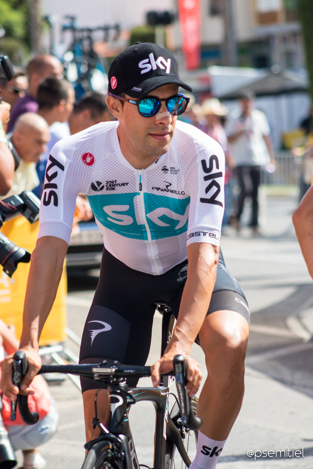 2018 Vuelta a España, Stage 7